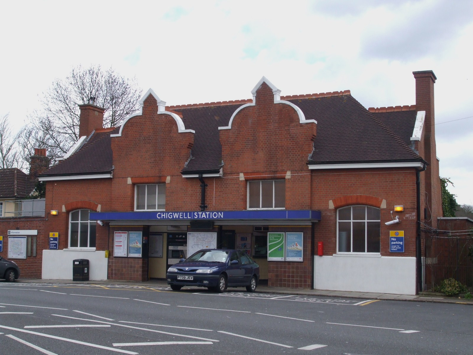 Chigwell tube station, largely unaltered from its Great Eastern heritage (opened 1903)